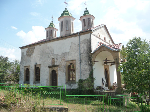 The orthodox church "John the Baptist" in the village of Golesh, Godech minicipality, Bulgaria. Built in 1896-1900.